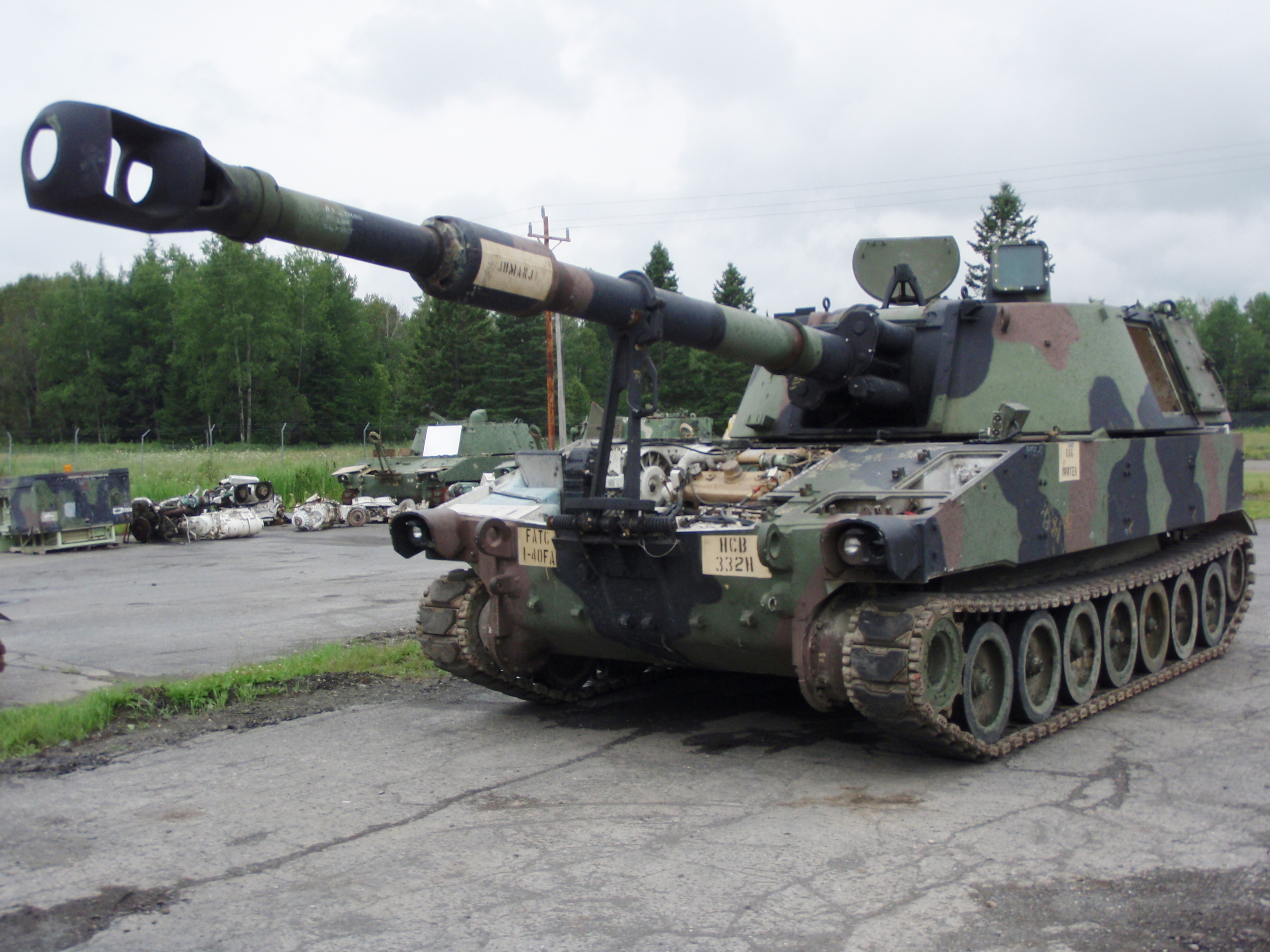 This is a M109A5 being repaired by Maine Military Authority in Limestone, ME.